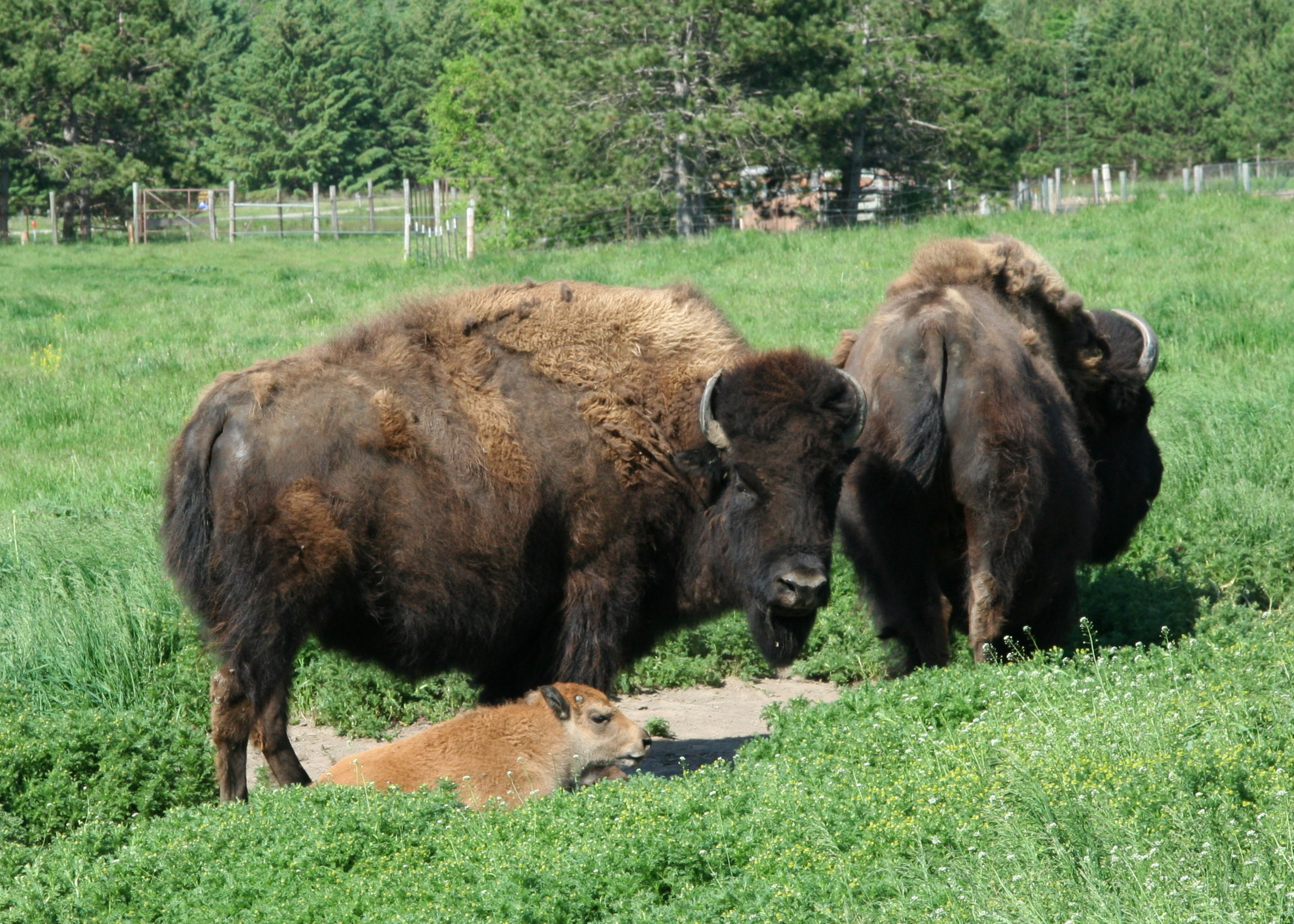 American Bison (Bison bison) cows and a calf at Zollman Zoo in Oxbow Park, Olmsted County, Minnesota